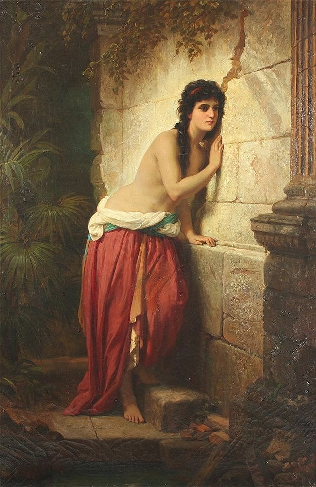 Listening at the Wall